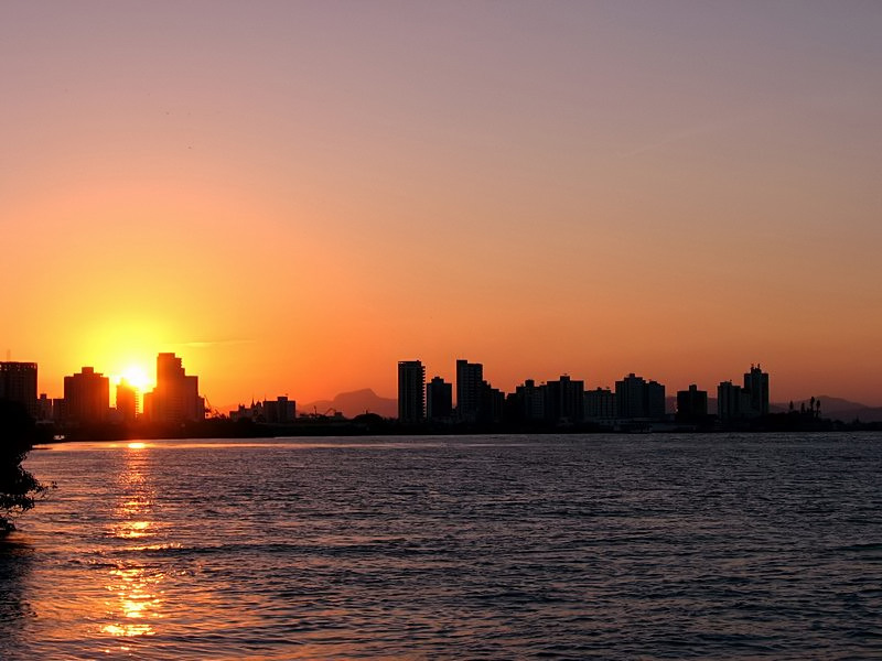 View of the Itajaí-Açu River with a sunset at the background, in Itajaí, Santa Catarina, Brazil.